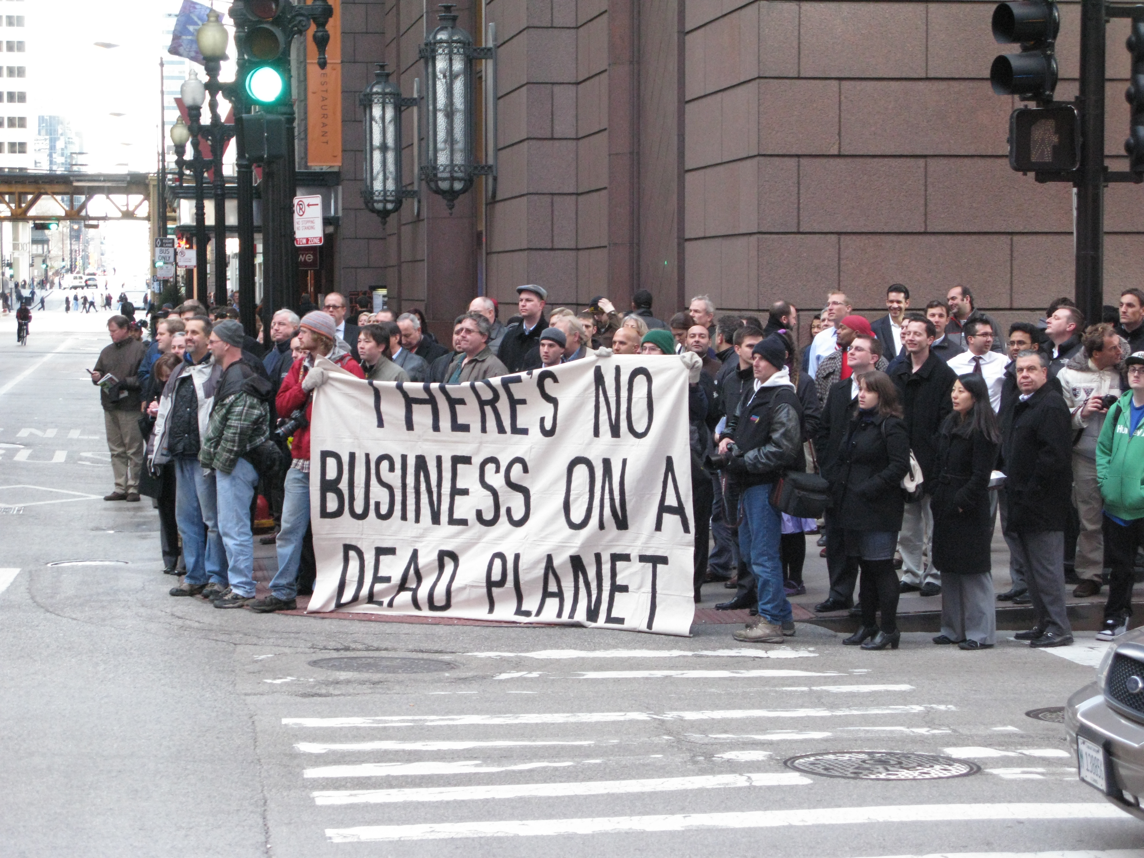 Chicago Climate Justice activists protesting cap and trade legislation at the intersection of LaSalle & Adams in Chicago Loop